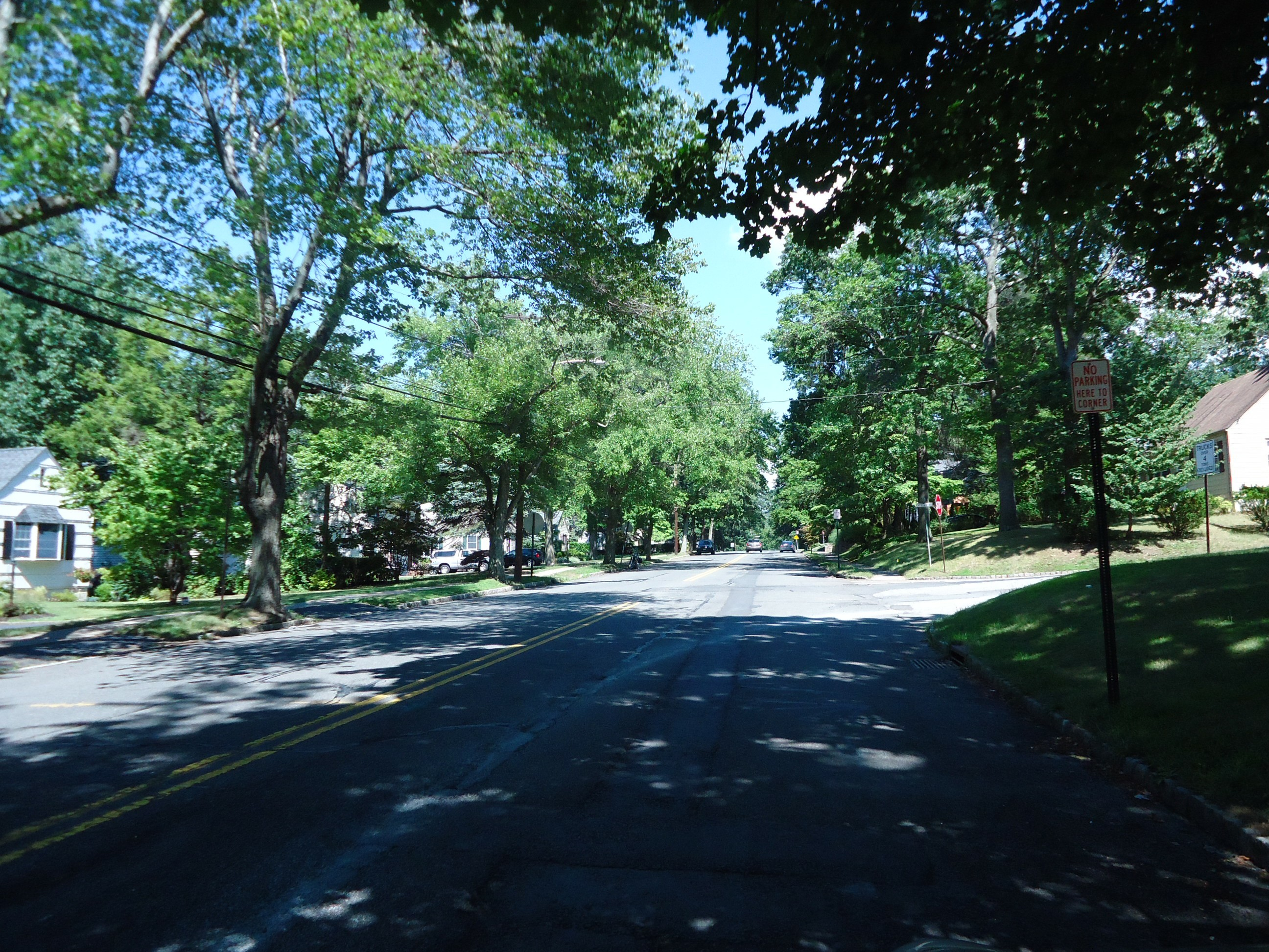 Leafy street. New Providence, New Jersey, is a borough in Union County and about 40 minutes west of Manhattan.